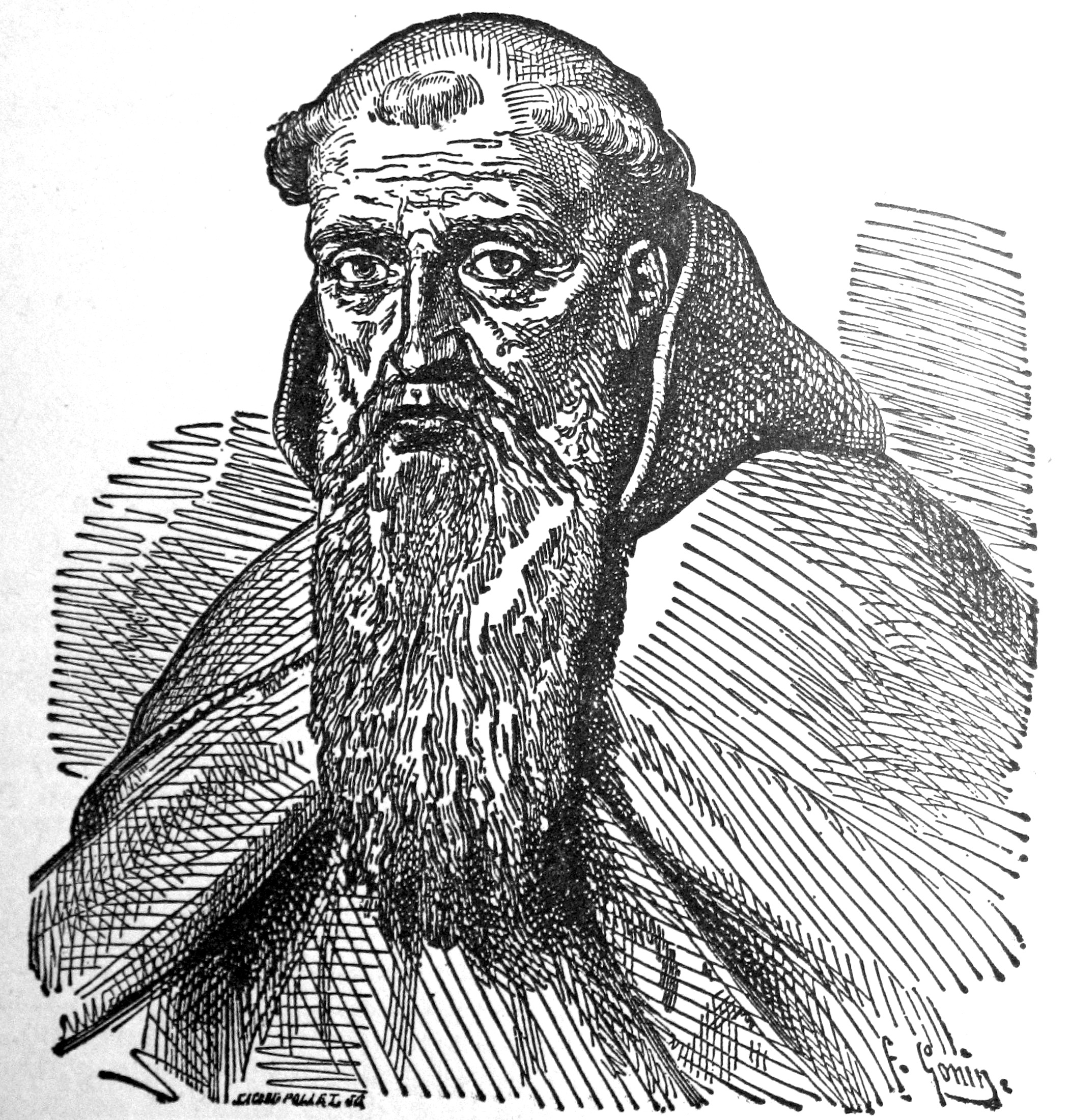 Picture from "I promessi sposi" of fra Cristoforo